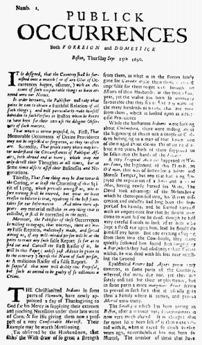 Publick Occurrences; Date: 09-25-1690